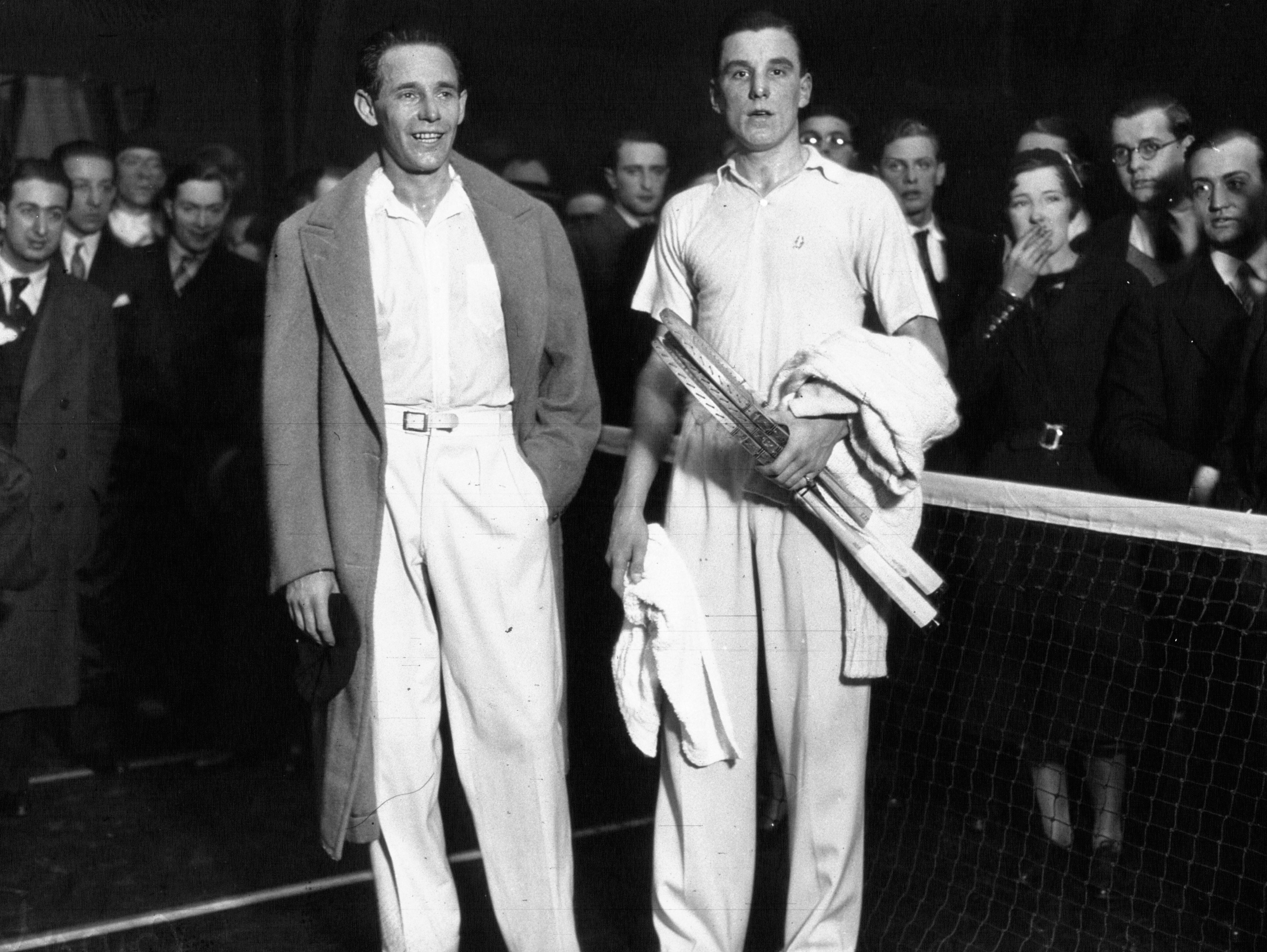 Tennis players Jean Borotra (left) and Fred Perry in 1932.